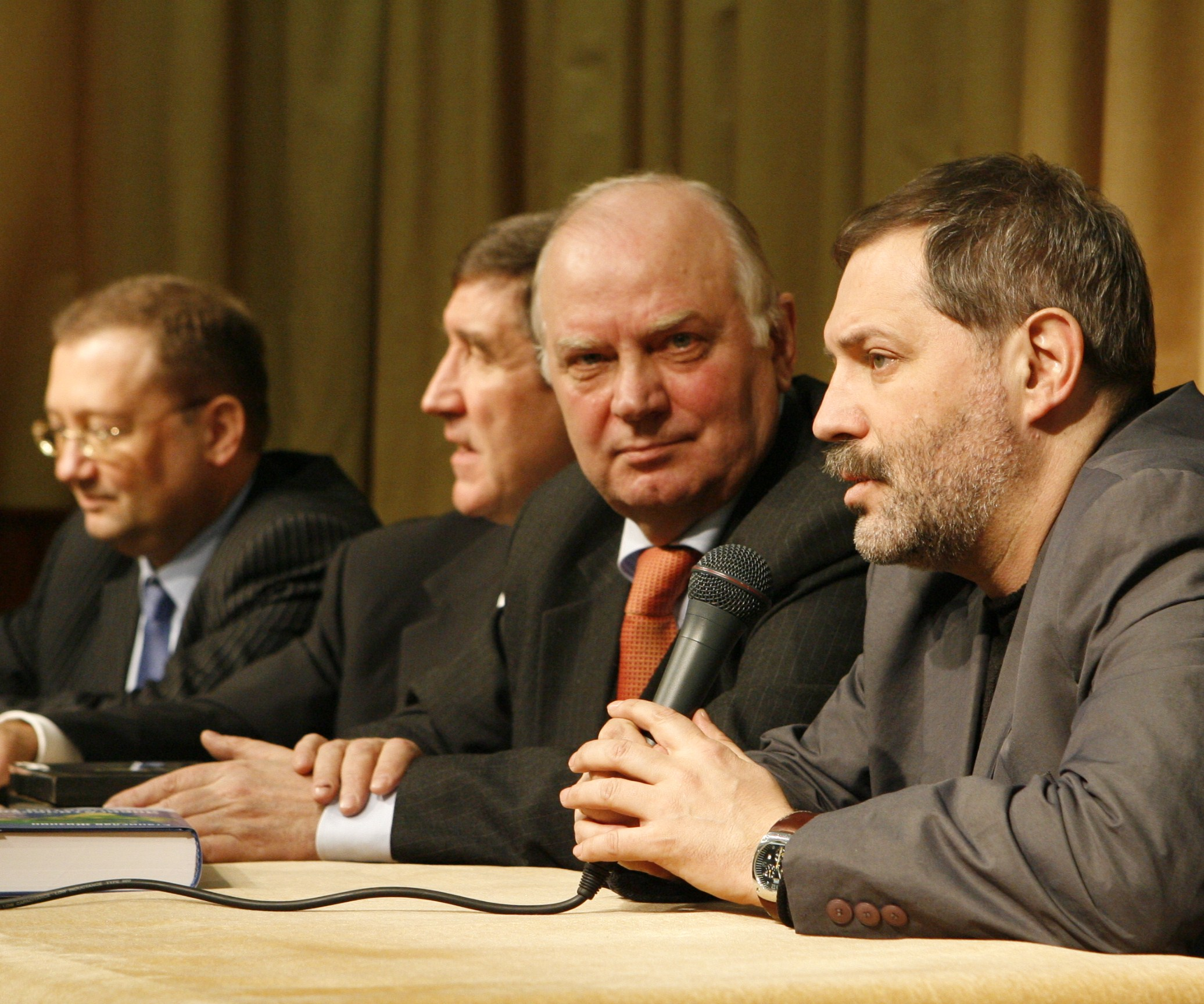 Zhiznin_and_Leontiev